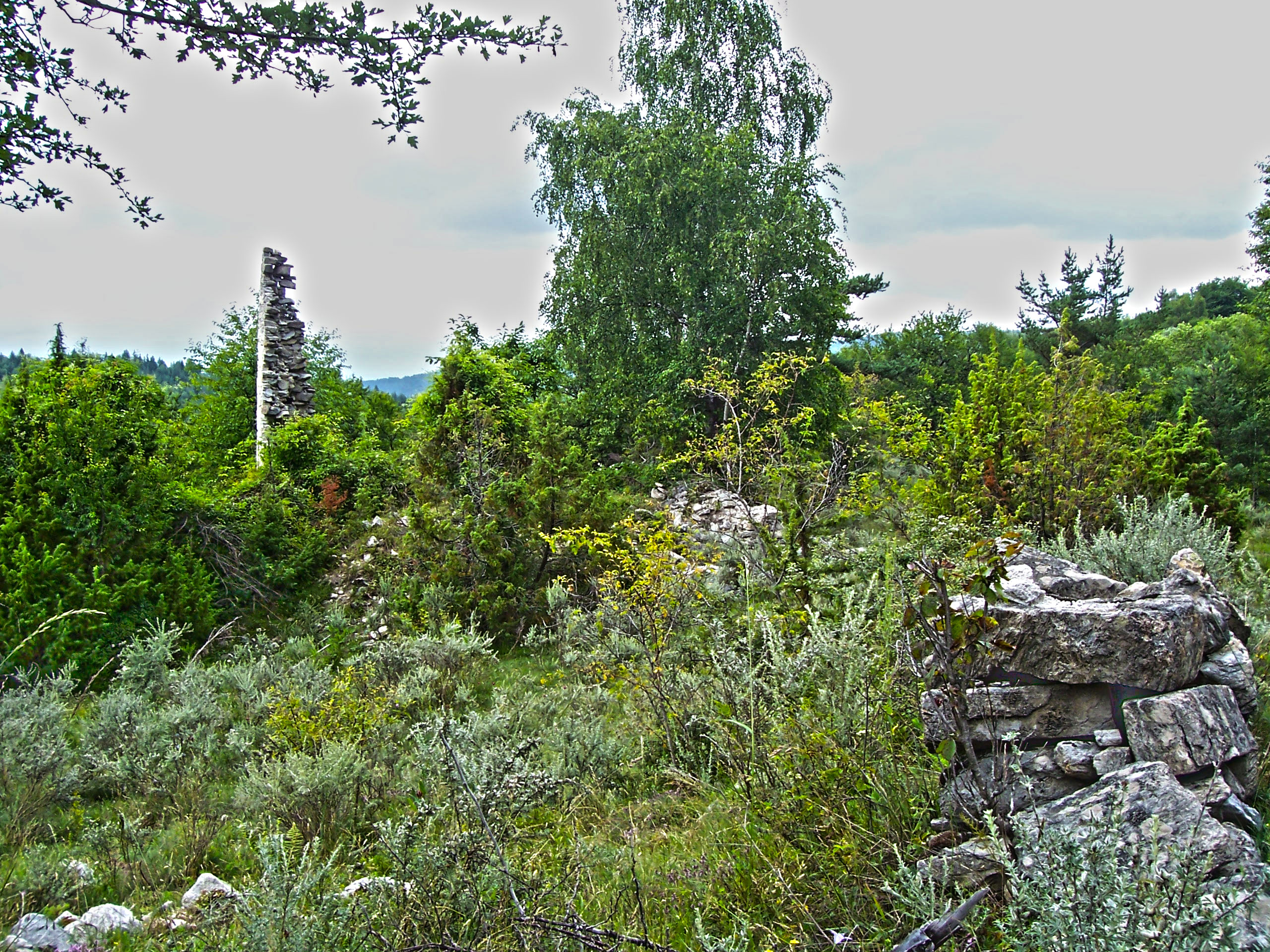 Ruins in the village of Tisovo.